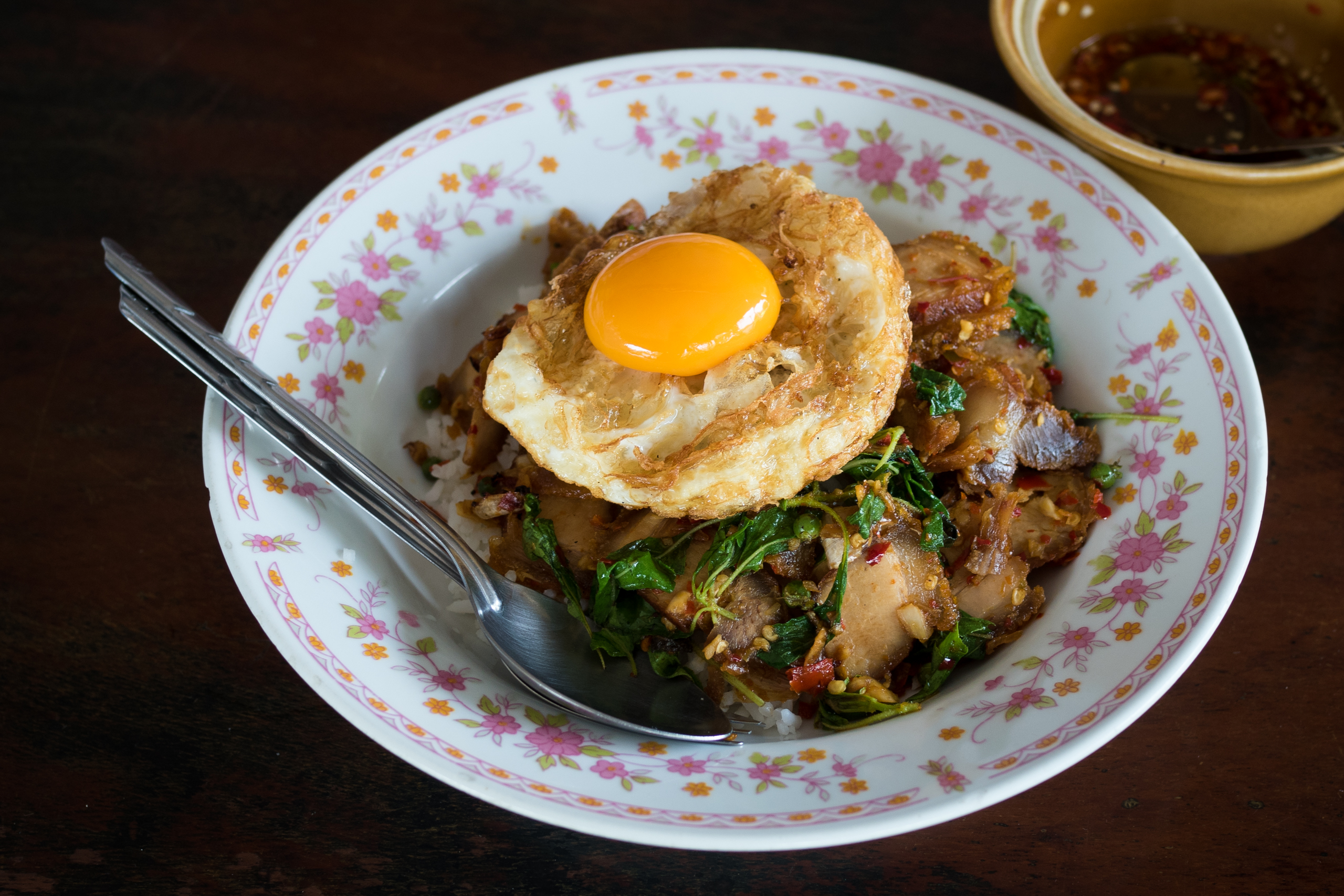 Mu krop phat kaphrao khai dao rat khao is crispy pork fried with holy basil served with a fried egg on top of white rice. The unusual thing with this particular version is, that the egg yolk has been separated from the egg white before frying, and only later added raw to the dish.